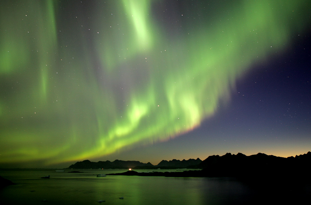 Taken in Greenland in September 2005. The light on the horizon is a fishing boat, and the smaller one behind, the entrance to the fjord into Tasiilaq